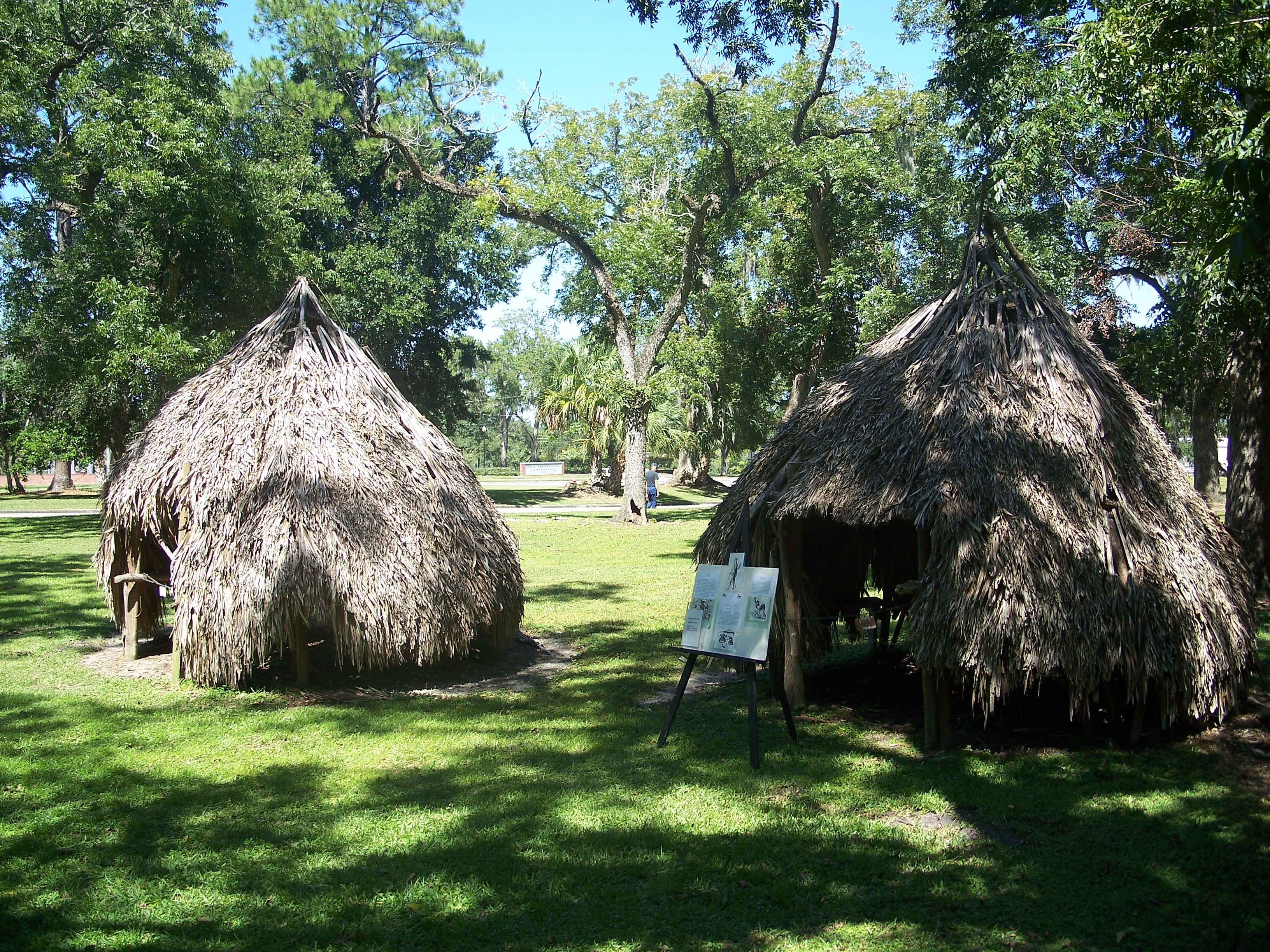 Ocala: Reconstruction of Timucua paha (house) at the Marion County Historical Museum (formerly East Hall)